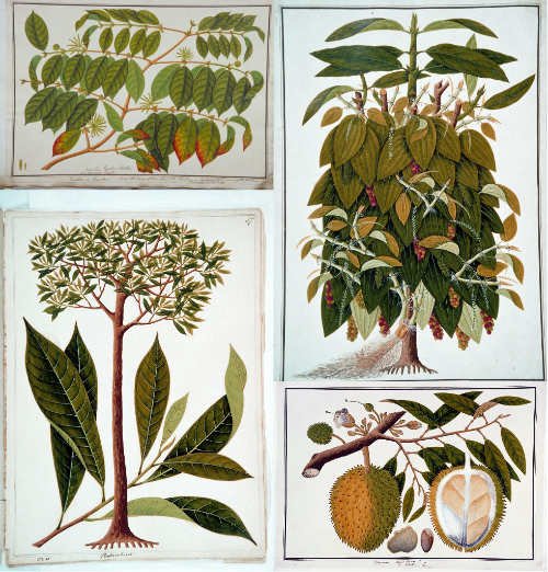 Four watercolour drawings of plants from Malacca commissioned by William Farquhar. Clockwise from top left, they are: "Nauclea Gambir (Hunter) now Uncaria Gambir; Gambeer or Gambare; Pokok Gambir [in Jawi]". Gambier (Uncaria gambir, known in Malay as gambir). Its leaves are added to betel leaves (Piper betle) and slices of areca nut (Areca catechu) and chewed as a mild stimulant. "Lava Etam (Malay); Black Pepper; Piper Nigrum; Lada Hitam [in Jawi]". Black pepper (Piper nigrum; Malay lada hitam). "Doorean; Durio stercorae; D. zibethina Linn; Durian [in Jawi]". Durian (Durio zibethinus). "Pendarahan; Pendarahan [in Jawi]". Wild nutmeg (Gymnacranthera farquhariana or Myristica farquhariana; Malay pendarahan). This is the only plant that is currently named after William Farquhar.